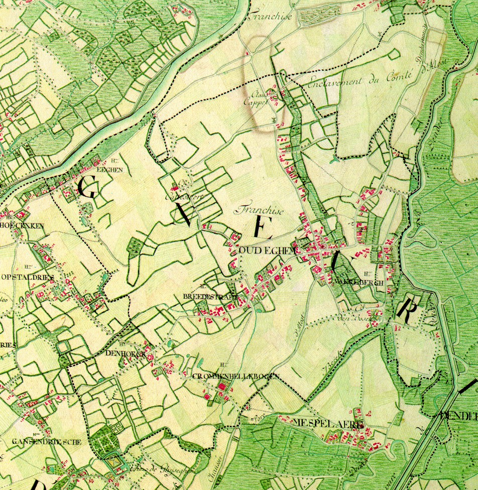 A Ferraris map [k58-3] (1775) of Oudegem.